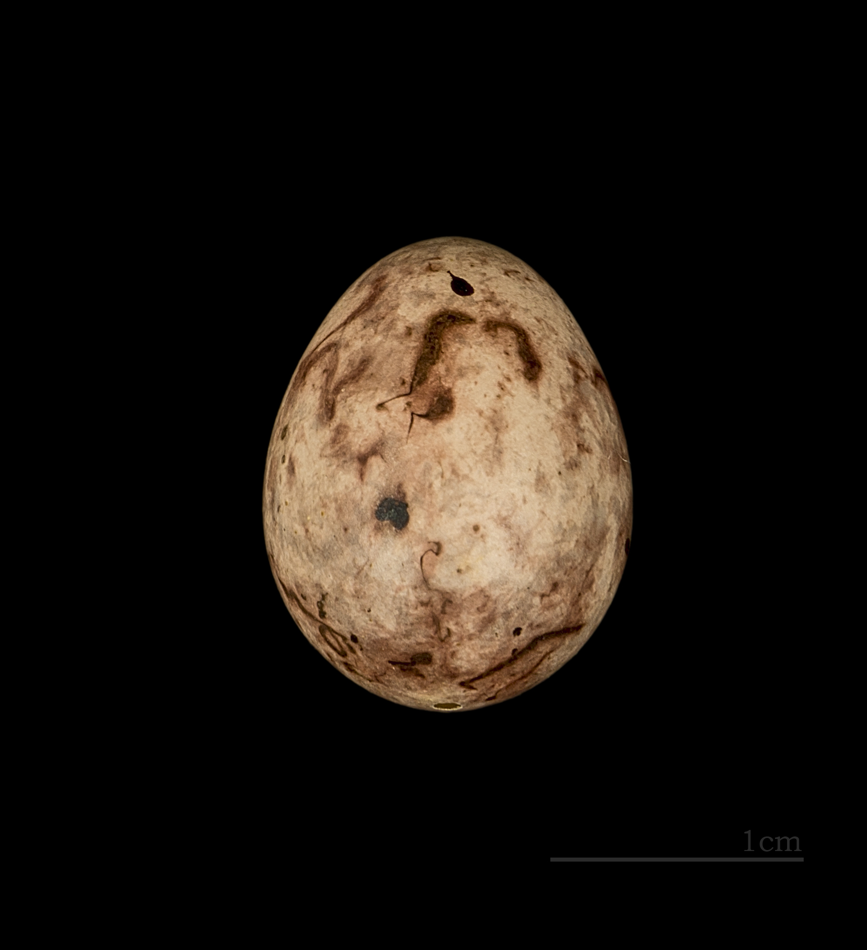 Egg of Little Bunting. Collection of Jacques Perrin de Brichambaut.